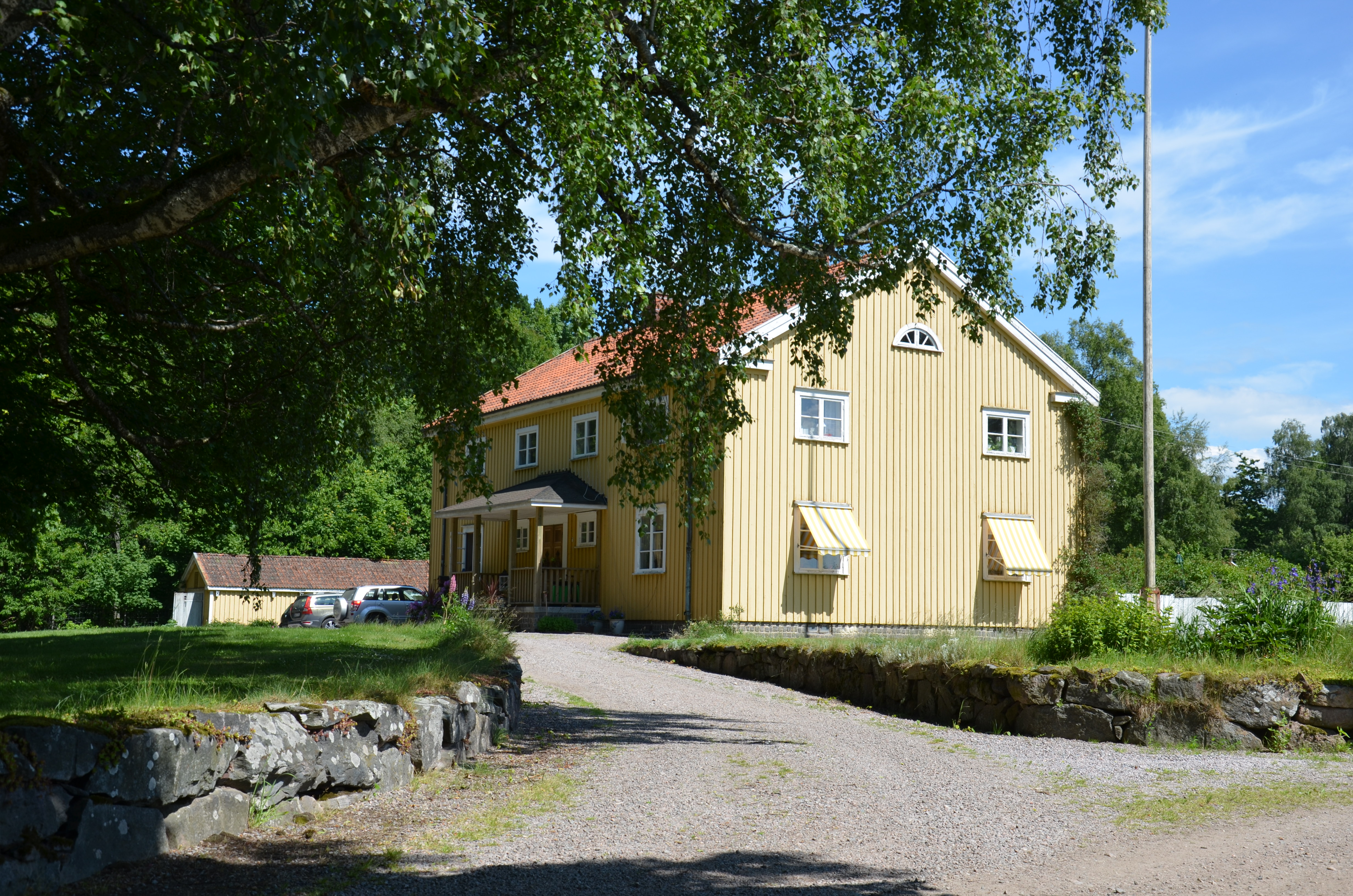 Levene gård, Vara municipality, Sweden